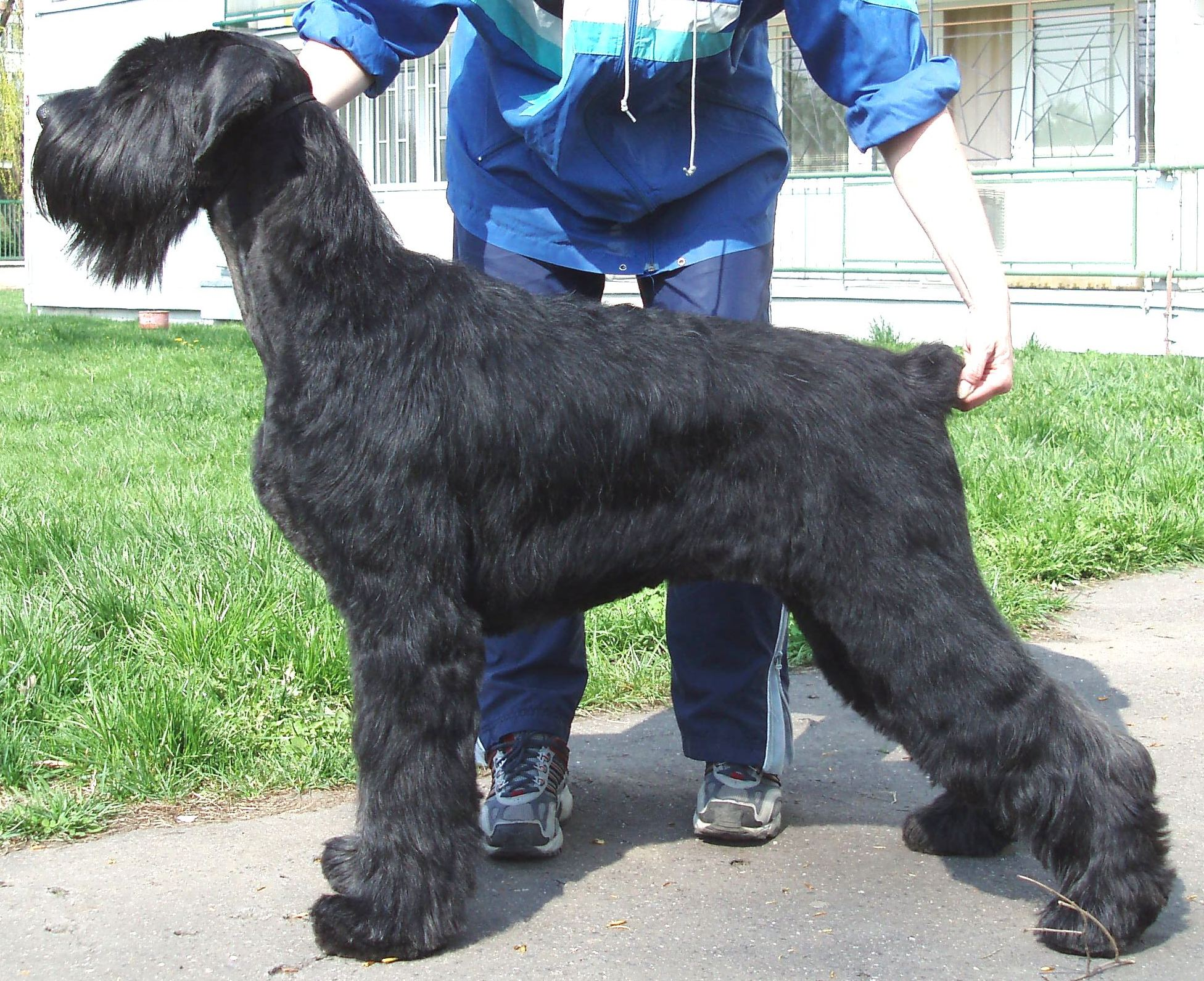 Nev Lemar Barbara